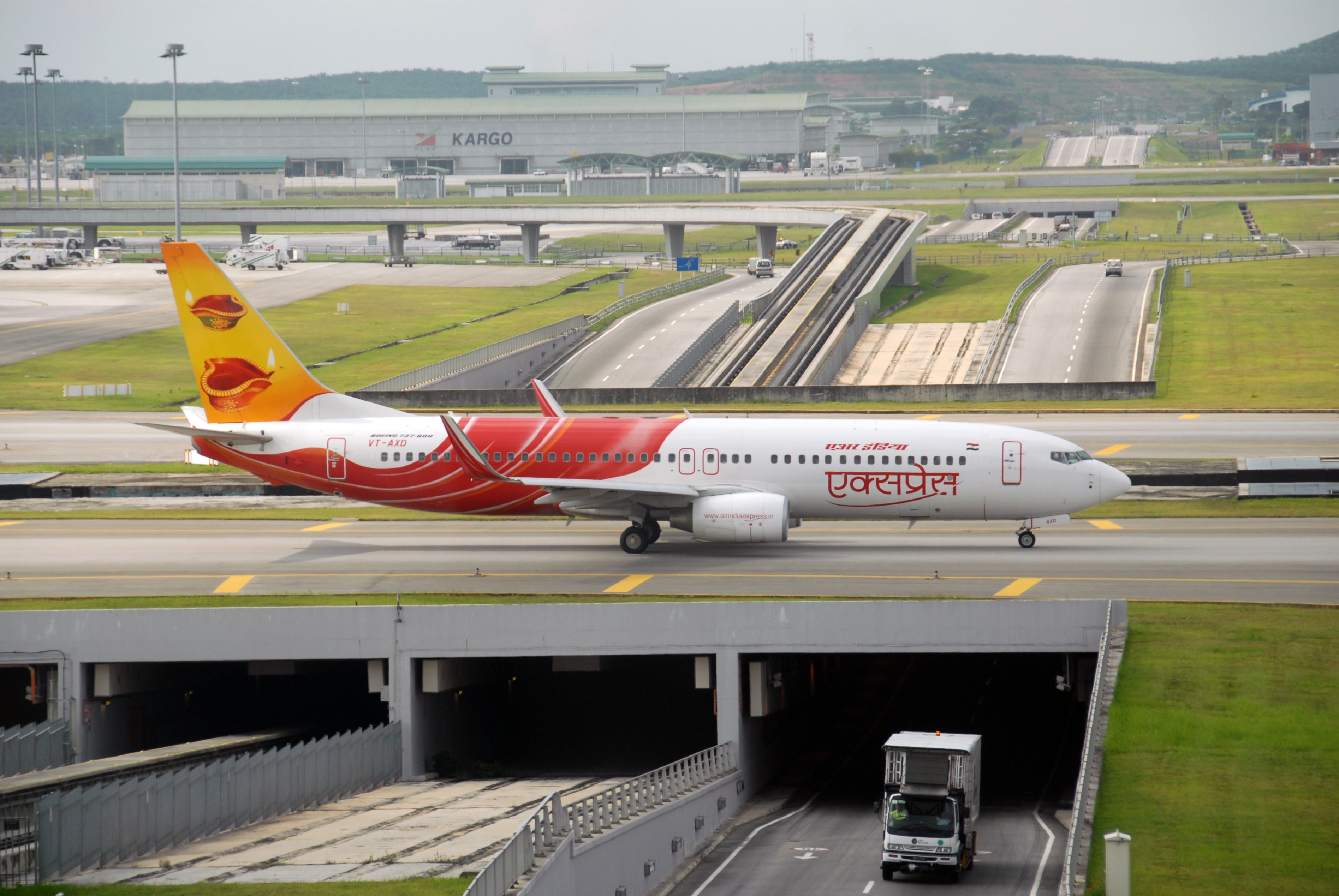 Air India Express Boeing 737 (VT-AXD)